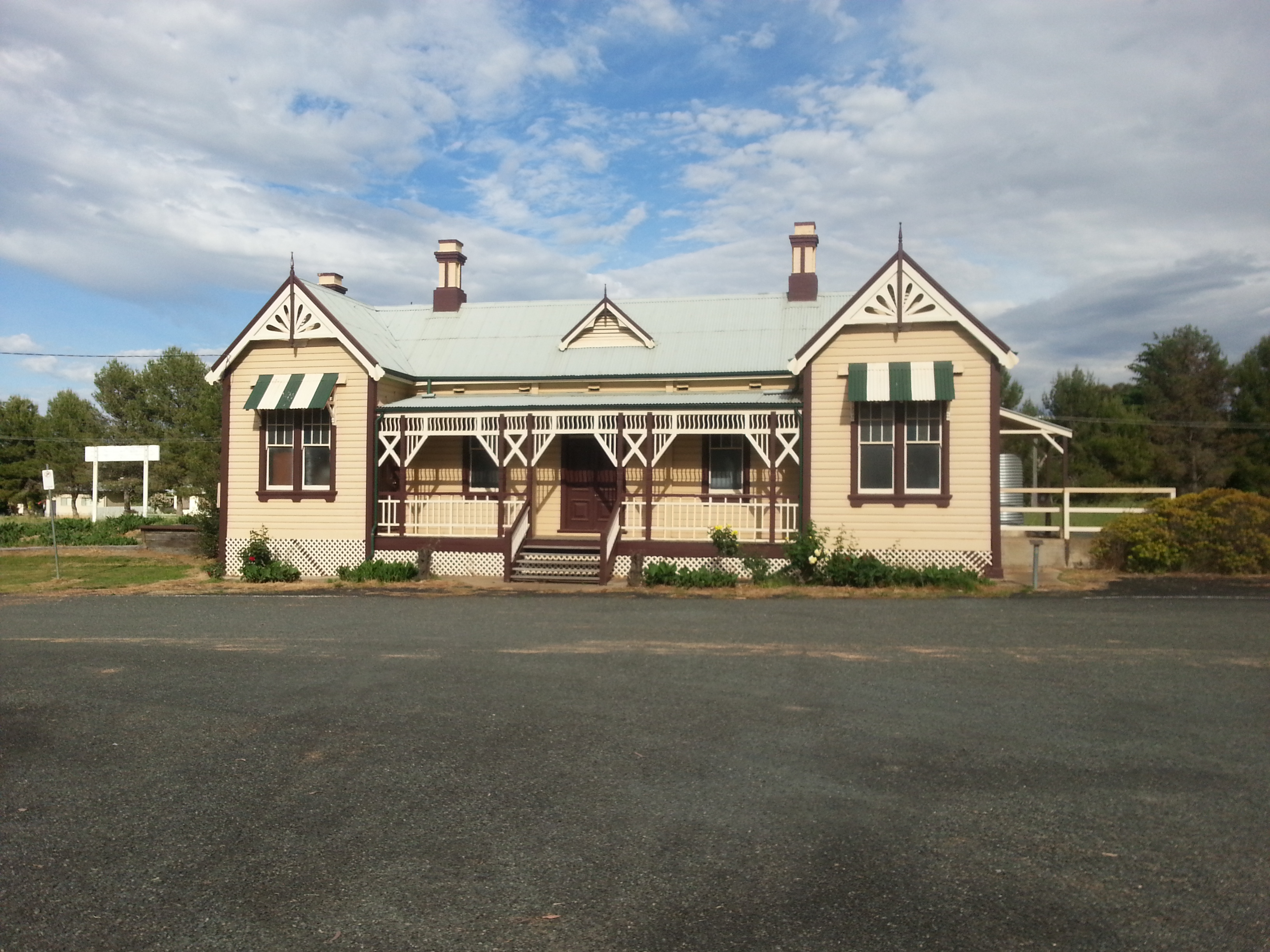 Grenfell Railway Station from street side. Grenfell is a small town in the Central West of New South Wales. The station was opened in 1901